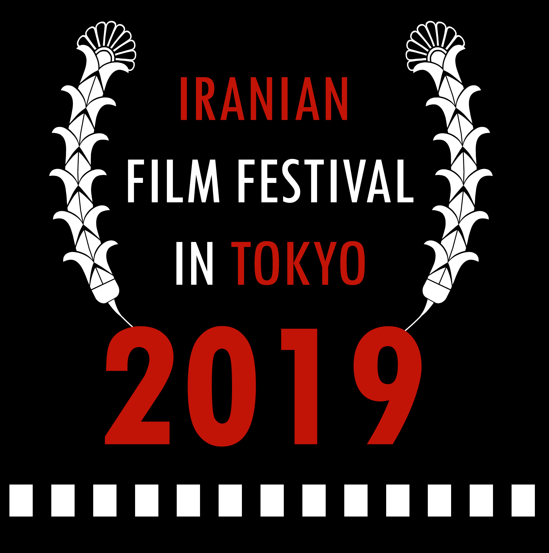 イラン文化センターにより毎年開催される東京イラン映画祭２０１９のロゴマーク